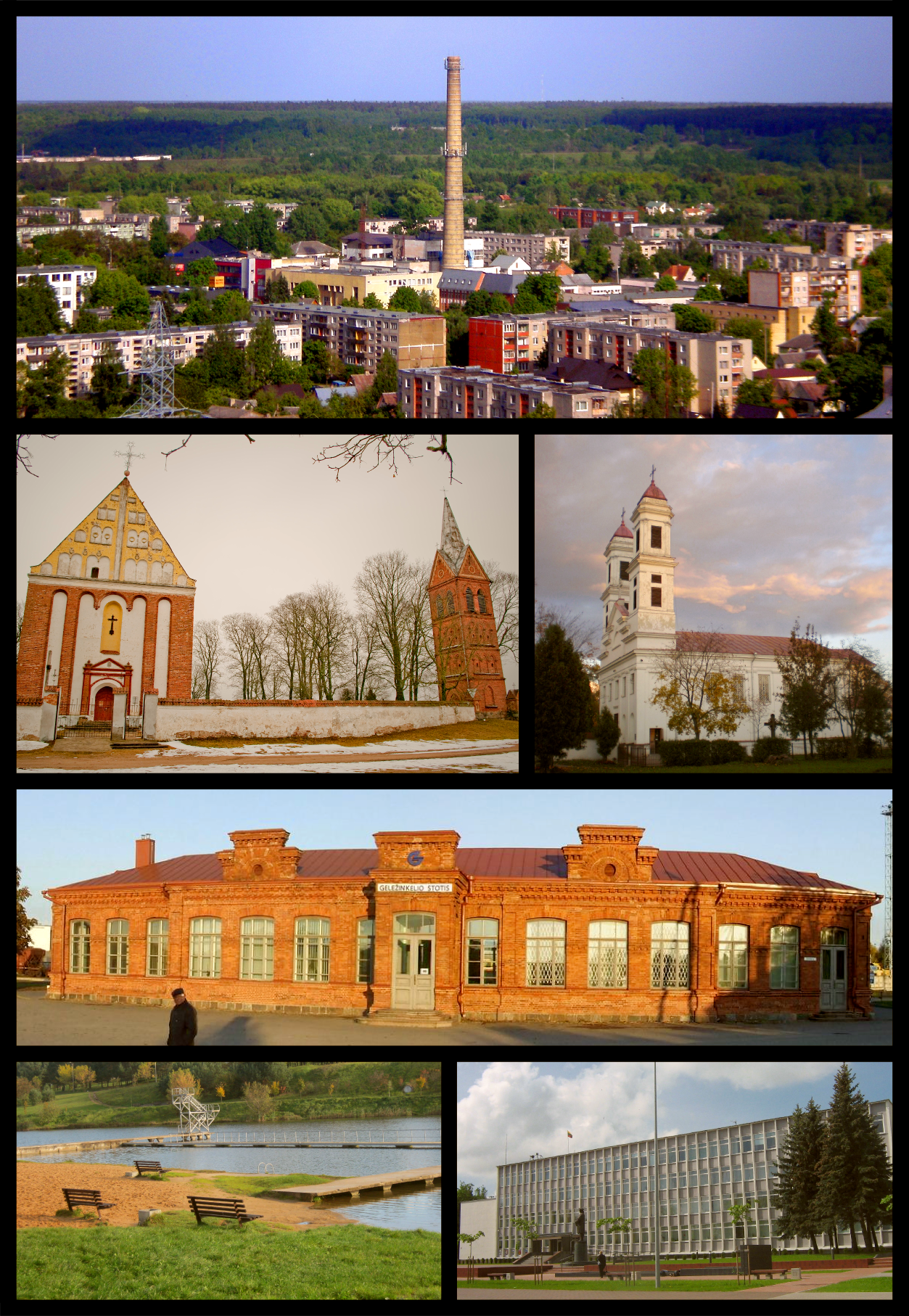 A composition of different pictures of Jonava, Lithuania